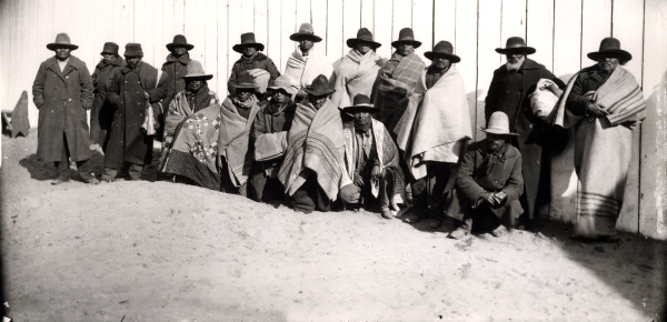 Crazy Snake Rebels in custody, 1909.